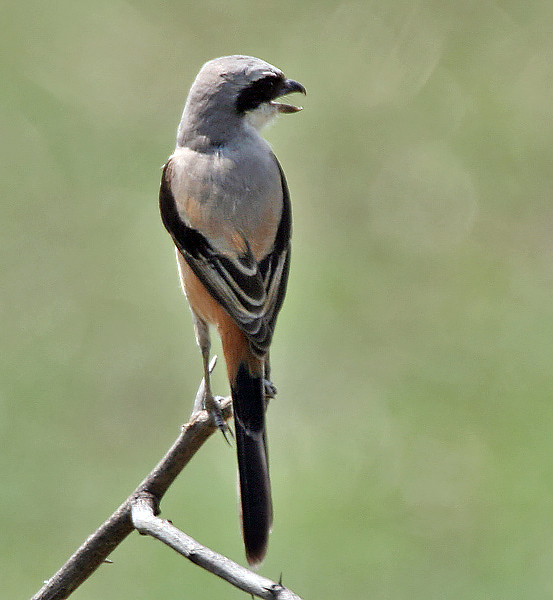 Long-tailed Shrike (Lanius schach) at Keoladeo National Park, Bharatpur, Rajasthan, India.